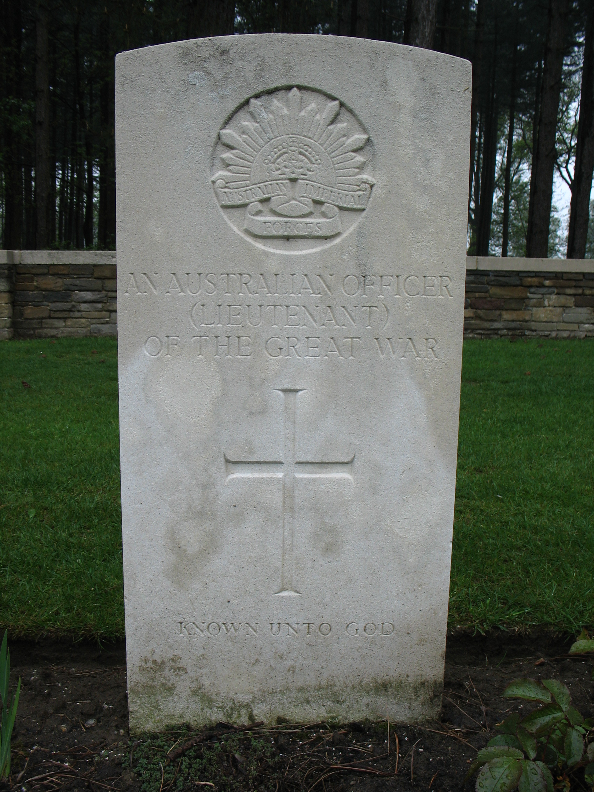 Commonwealth War Cemetary Headstone - inscription: An Australian Officer (Lieutenant) of the Great War/Known unto God. Taken at British New Buttes Cemetary, near Ypres.